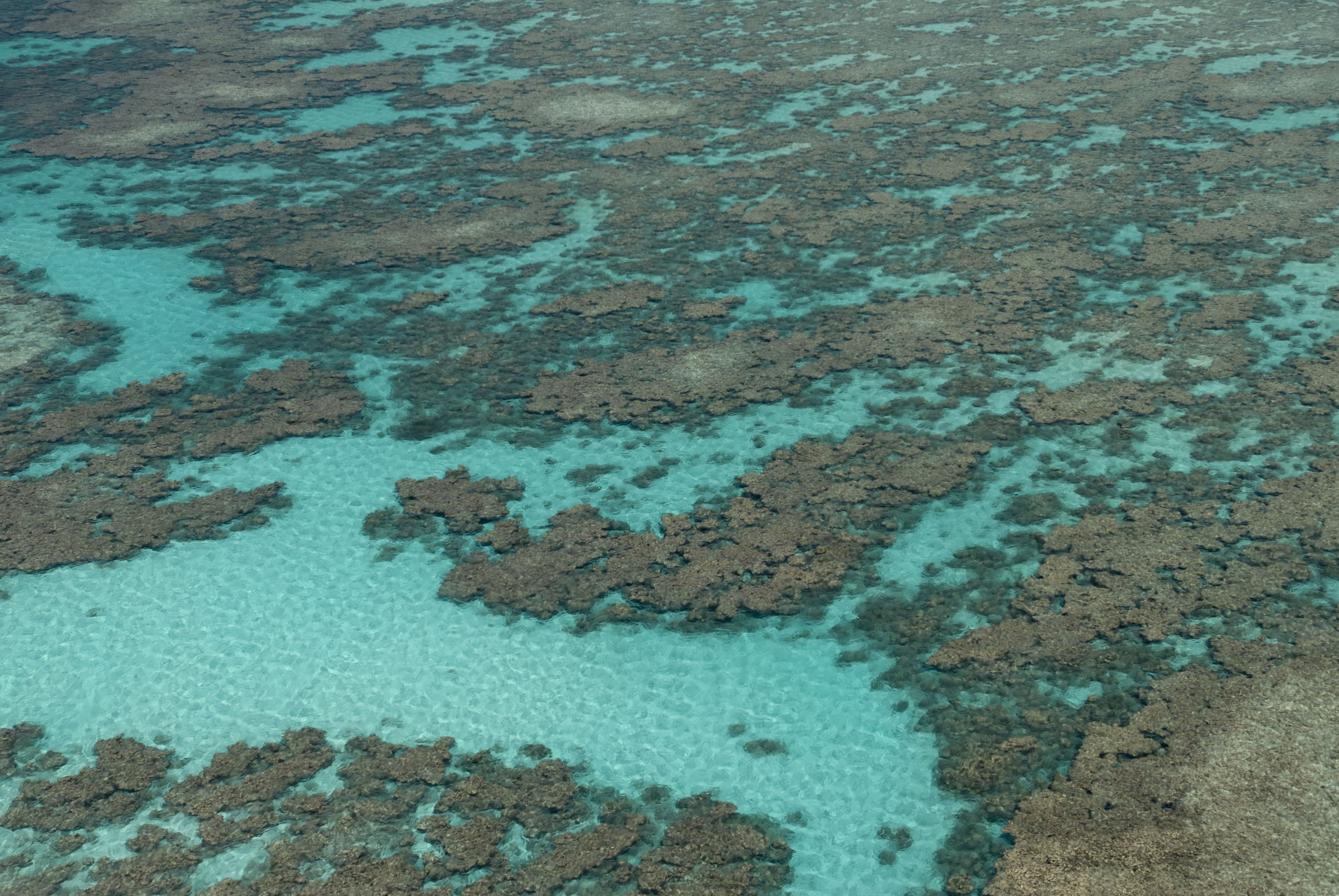 Aerial view of Juan de Nova island in Indian Ocean belonging to Scattered islands, within the territory of the France.